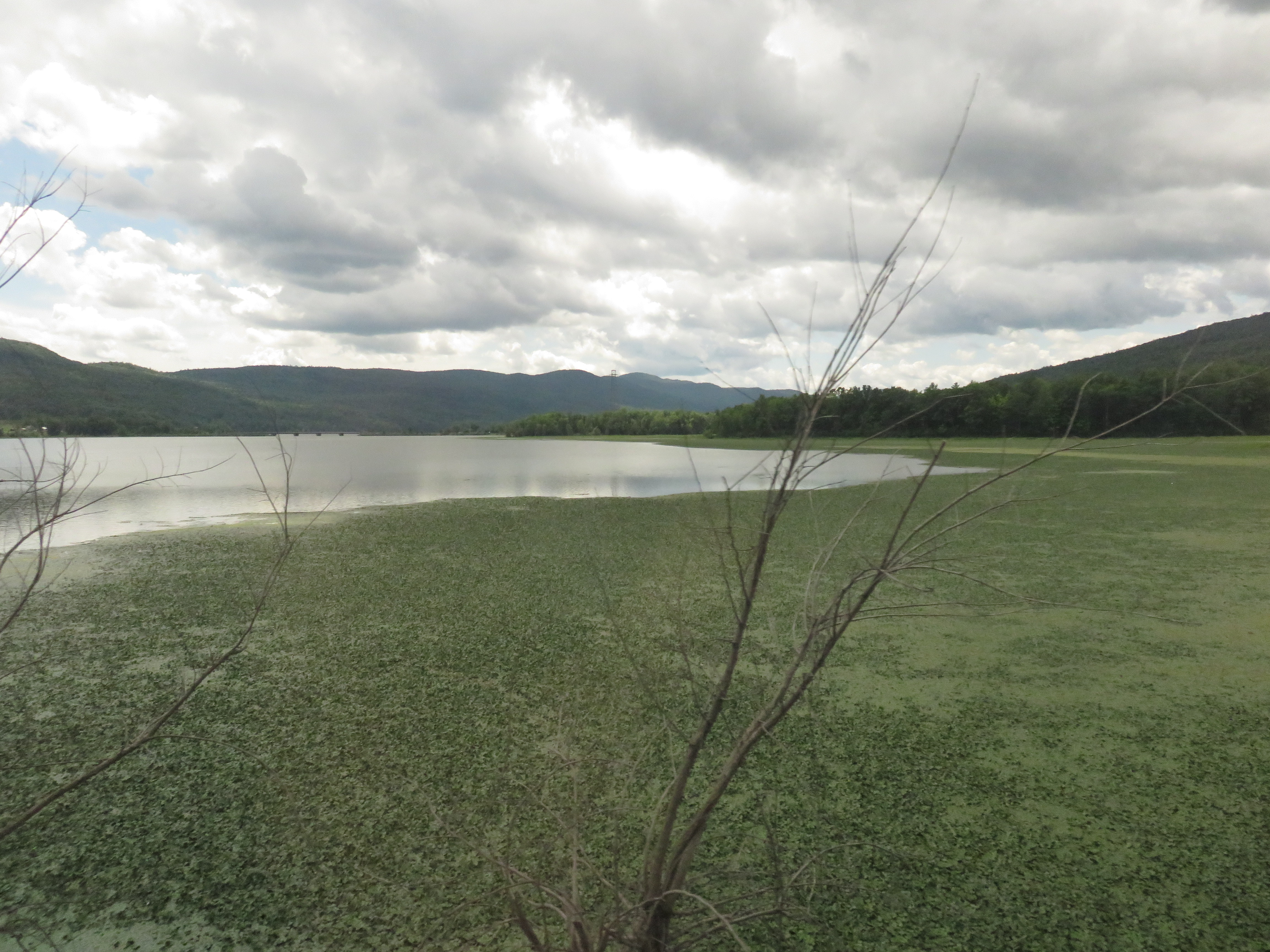 Southern end of Lake Champlain near Whitehall, New York from the Adirondack Amtrak train in 2017